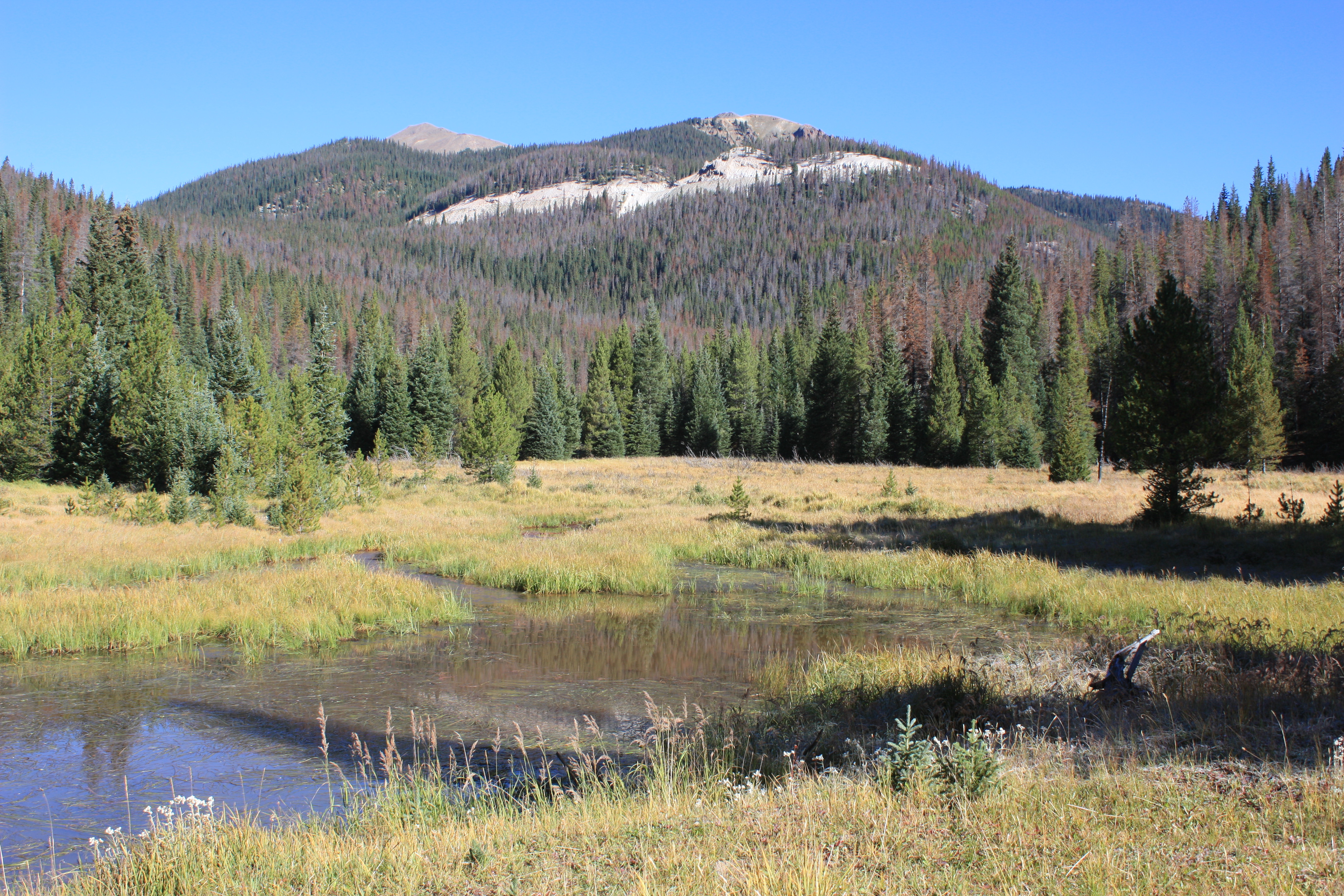 Lulu Mountain, to the north, overlooks the town site. No permanent structures remain.